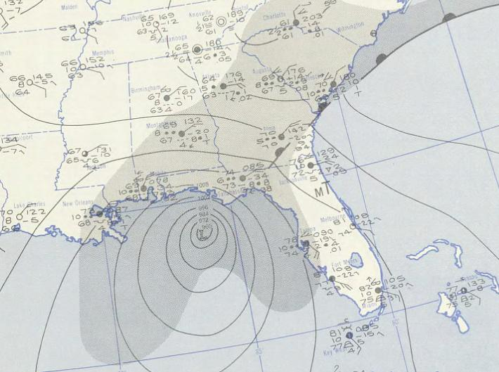 Surface weather analysis of Hurricane Florence on 26 September 1953.